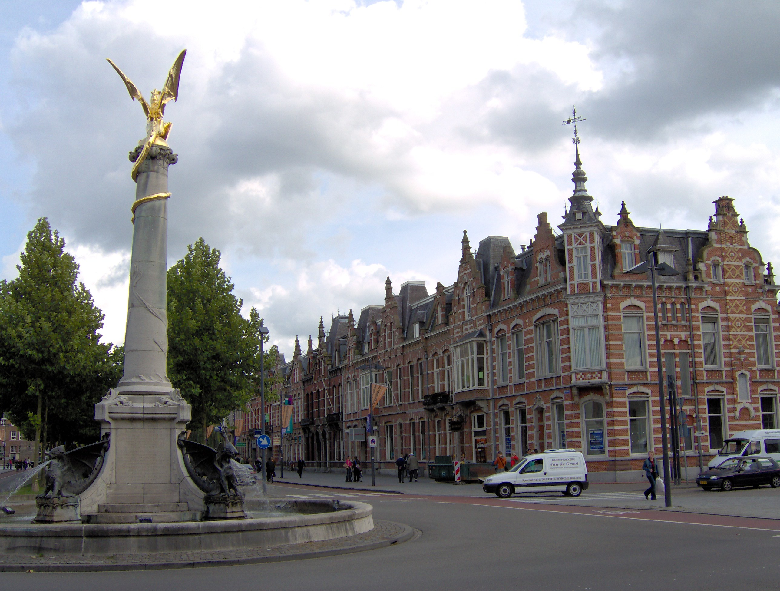 's-Hertogenbosch, fountain: het Drakenfontein. Near to the 's-Hertogenbosch train station